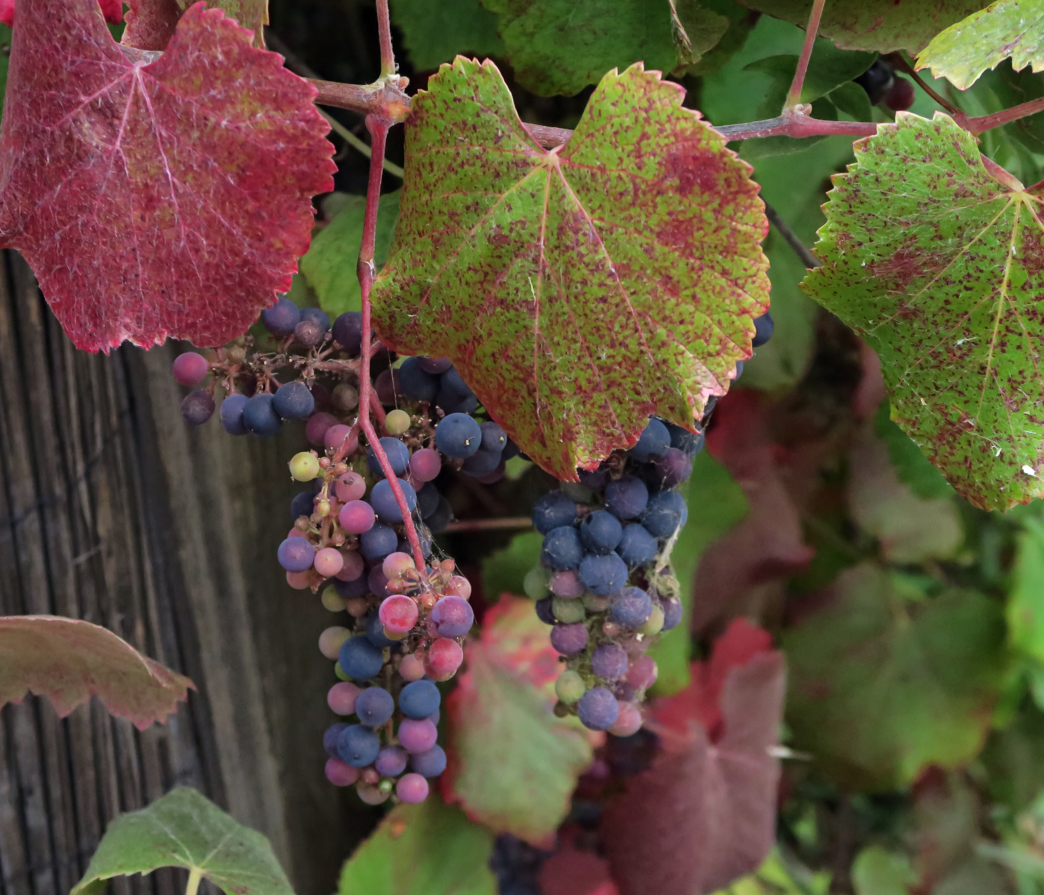 Vitis californica x viniferea 'Roger's Red'. A natural cross between the California wild grape and the cultivated wine grape first collected by Roger Raiche. The leaves turn a vibrant red in the fall. Three years ago I was thrilled when I found just a few bunches of grapes. This year, I have enough to make wine if I so desired. The grapes are tasty but come with a large pit. Photographed in a private garden in Berkeley, CA